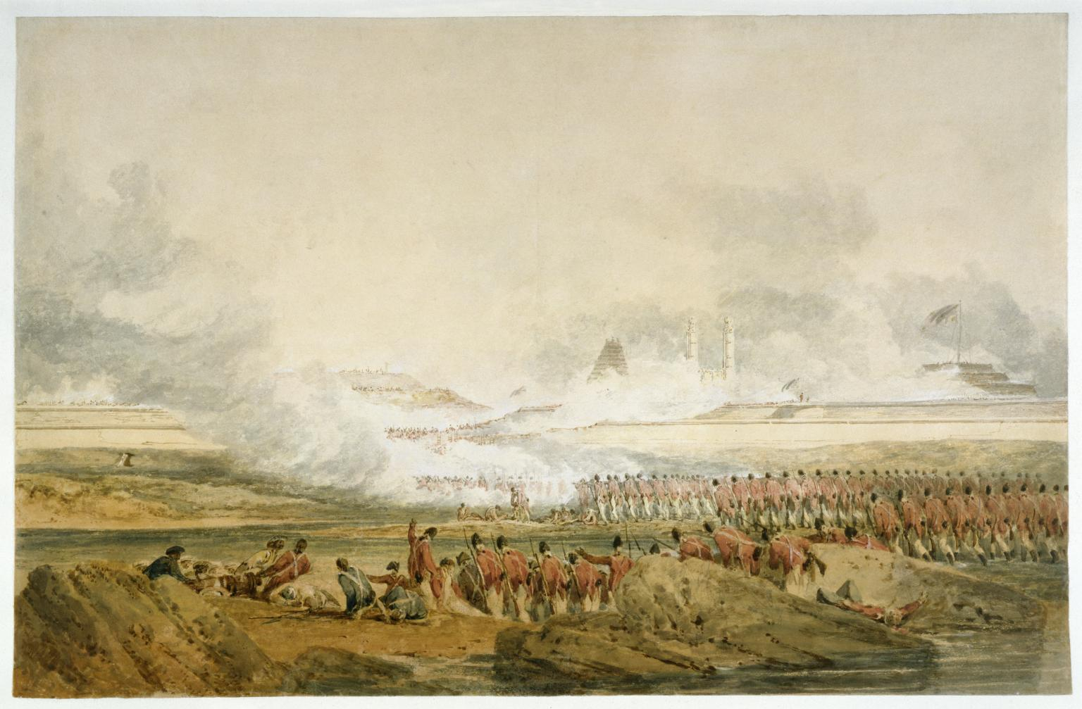 The Siege of Seringapatam c.1800 Joseph Mallord William Turner 1775-1851 Purchased 1986